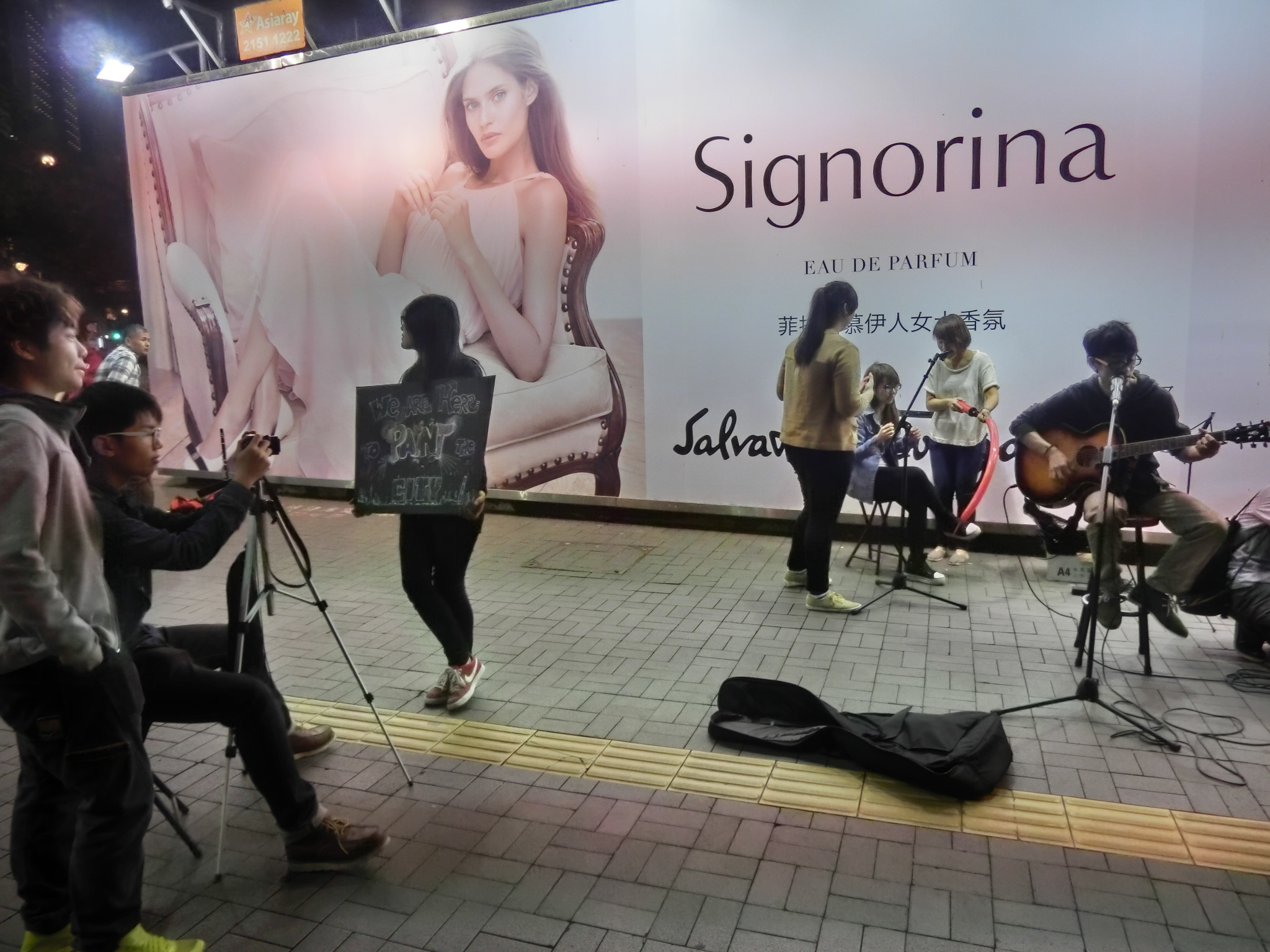 Street musical group at night in Salisbury Road, Tsim Sha Tsui, Hong Kong